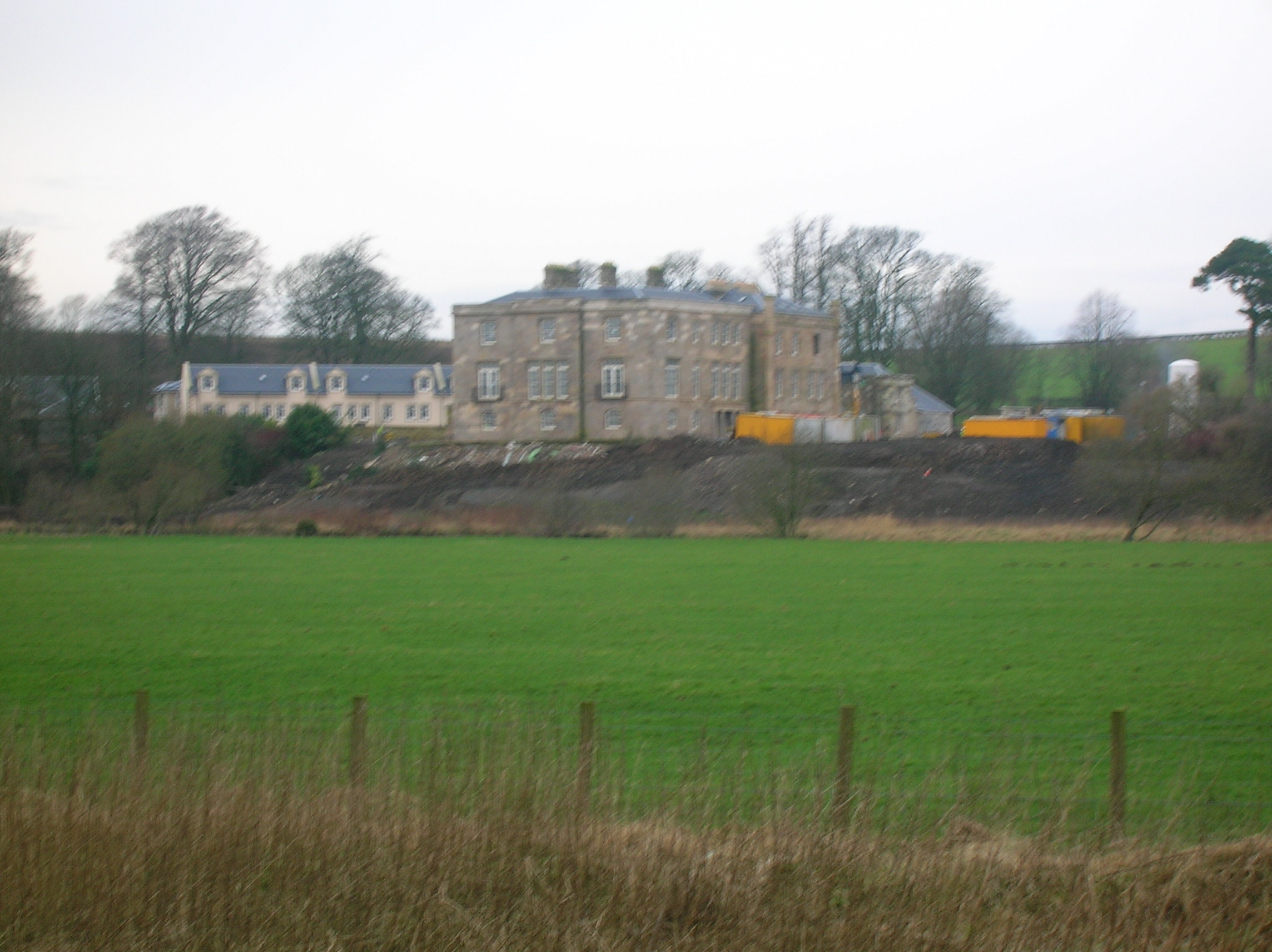 A view of the renovated Lainshaw House in East Ayrshire. 2007.